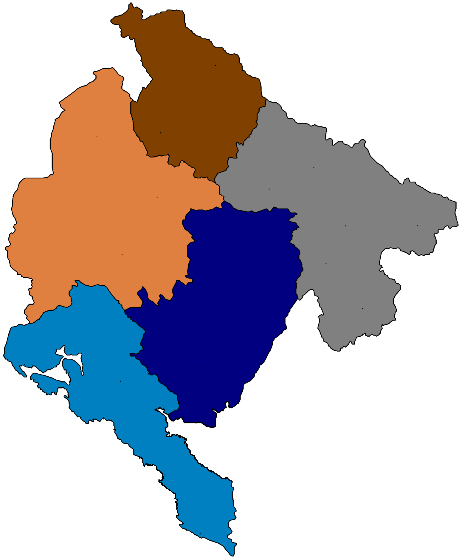 Historical Counties of Montenegro (1957)